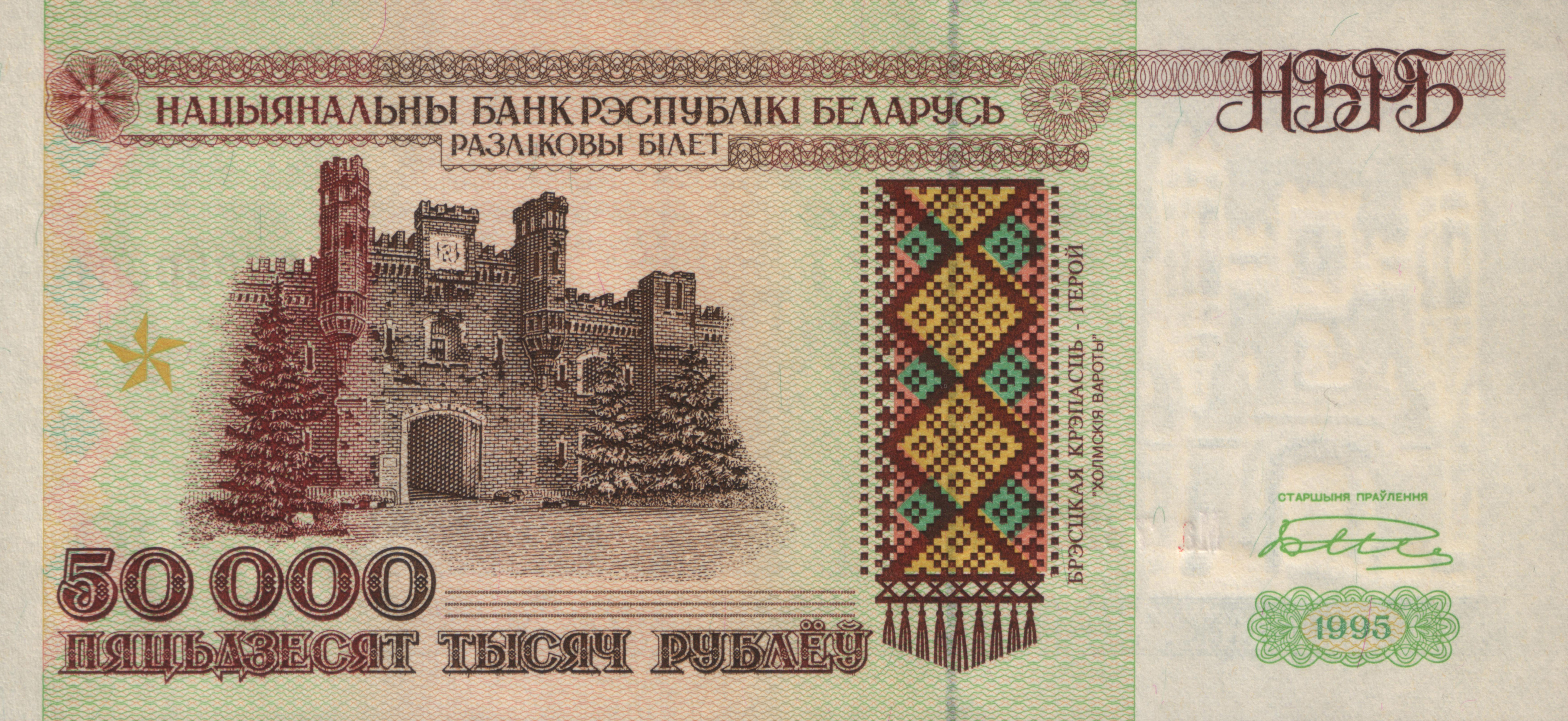 50 000 roubles of Belarus (1995)